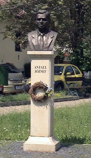 Statue of prime minister József Antall in Miskolc, Hungary. Sculptor:Zsolt Jószay